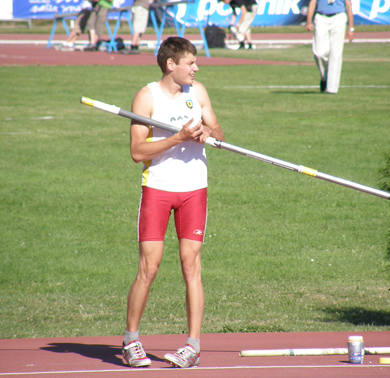 Paweł Wojciechowski - 2010 Polish Championships in Athletics (Bielsko-Biała)